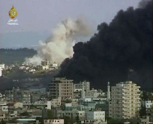 Gaza bombarded by Israelis in the Israeli assault on Gaza Strip 08-09. Day 14 of the assault.